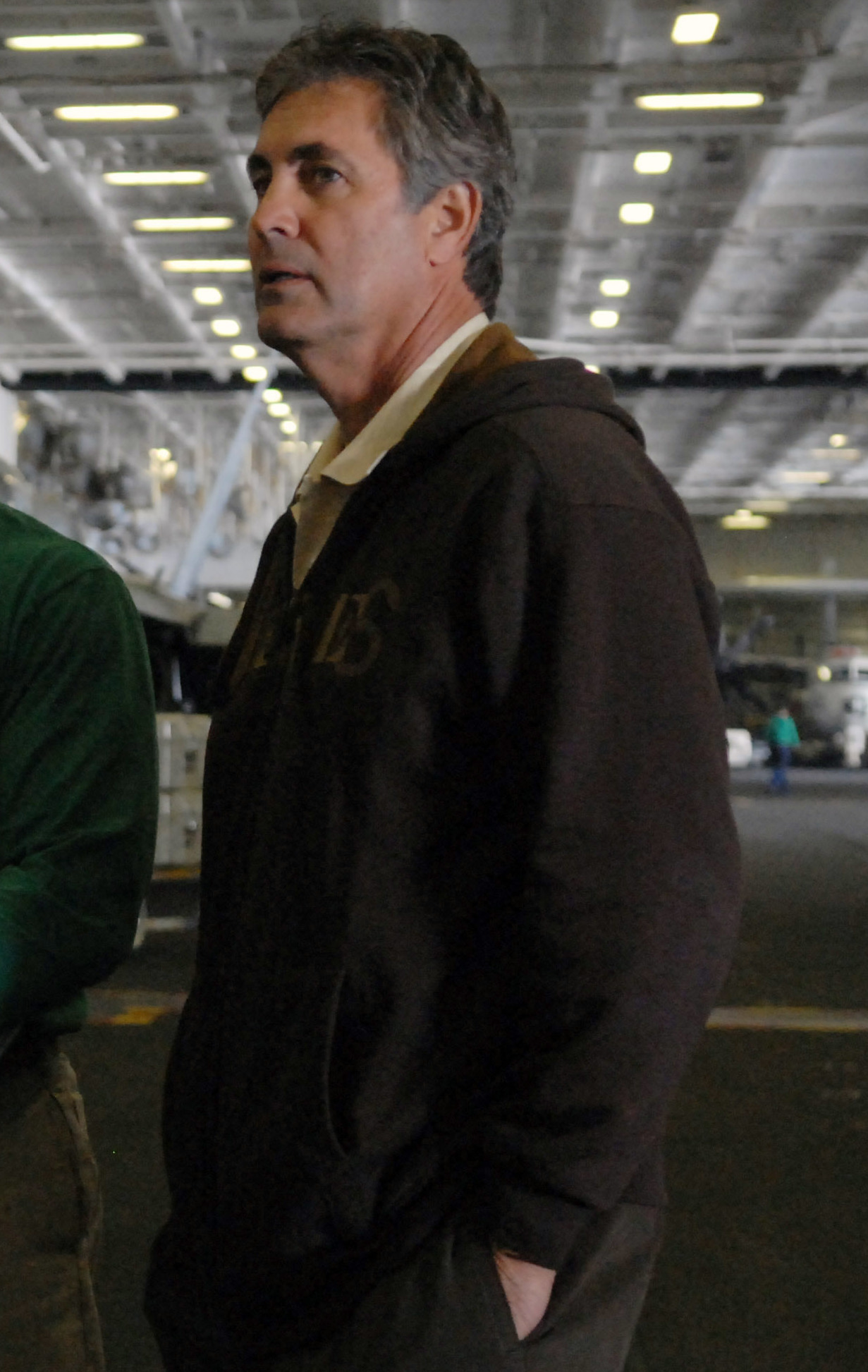 PACIFIC OCEAN (March 20, 2009) Carrier Air Wing (CVW) 14 Maintenance Officer Lt. Cmdr. Kenneth Brown explains aircraft operations to former Buffalo Bills Pro Bowl wide receiver Andre Reed and Los Angeles Rams quarterback Vince Ferragamo aboard the aircraft carrier USS Ronald Reagan (CVN 76) during a two-day tour of the ship. Ronald Reagan and (CVW) 14 are underway conducting a sustainment exercise in the Pacific Ocean. (U.S. Navy photo By Mass Communication Specialist 3rd Class Rosalie Garcia/Released)